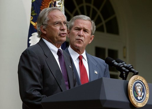 Porter Goss, former CIA director and President, with George W. Bush. Photo taken in 2004, Goss talking to the press in Rose Garden after President Bush nominated him to be the director of the CIA